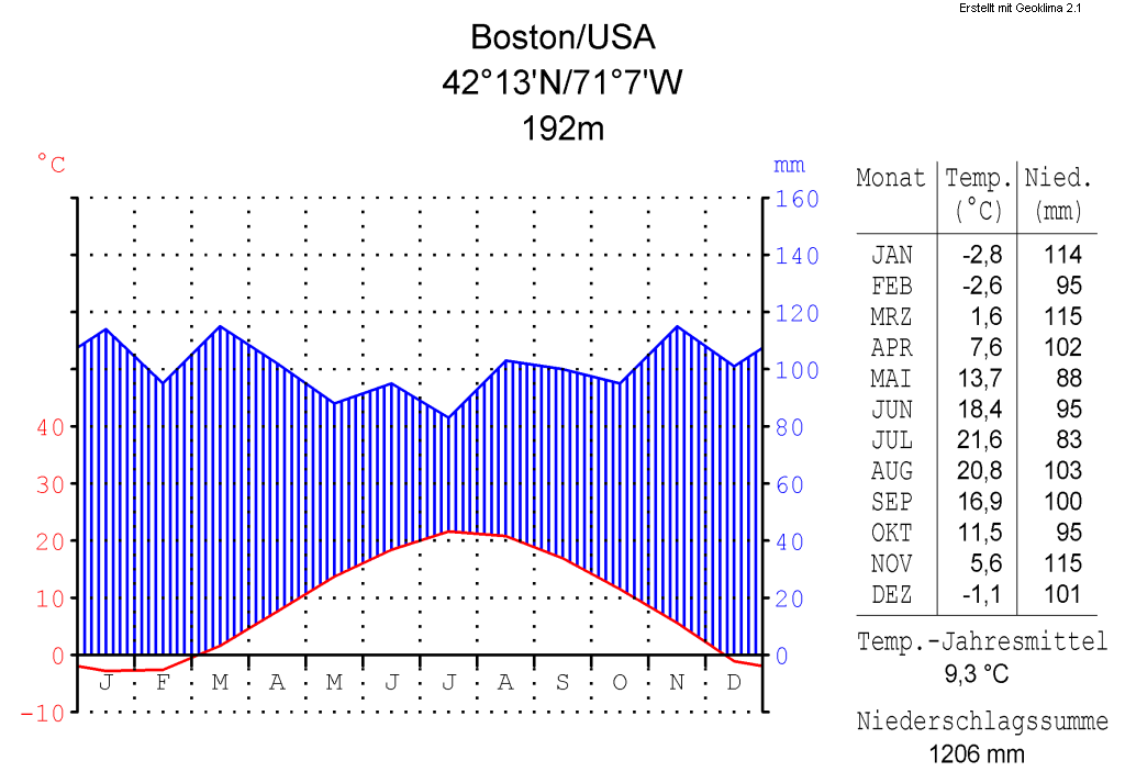 climate chart in the format by Walther and Lieth, metric, °Celsisus and millimeters, made with Geoklima 2.1